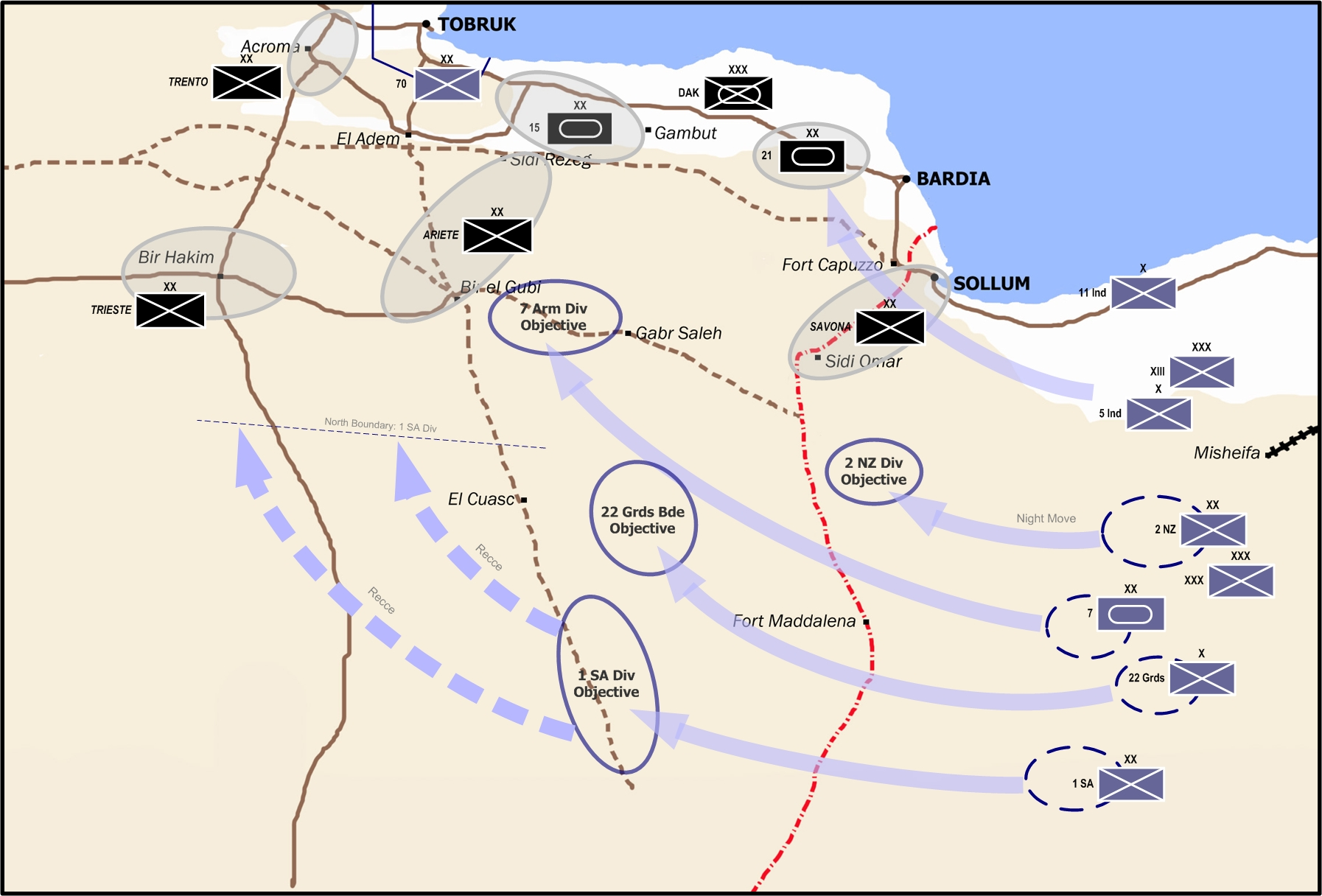 Map depicting the attack plan for Operation Crusader, 17 November 1941